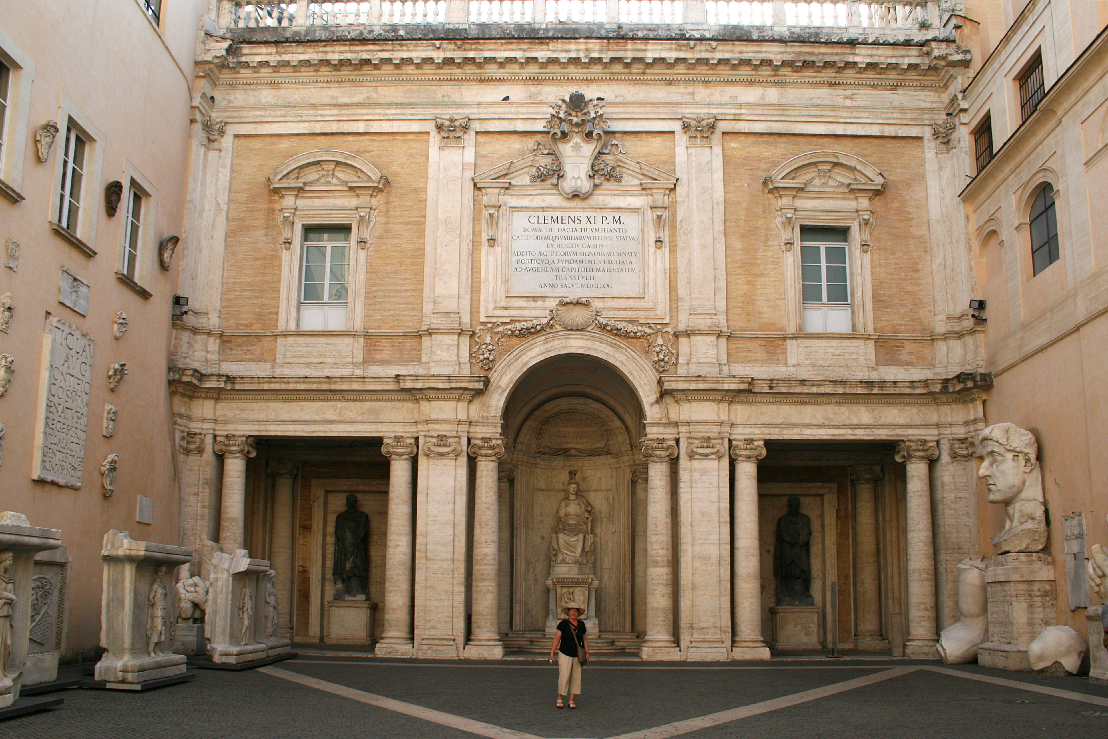 Courtyard of the Palace of the Conservatives with his inner portico designed by architect Alessandro Specchi (1668-1729) and built in 1720 for a group of three remarkable sculptures, monumental architectural elements and fragments of ancient sculptures its colossal.